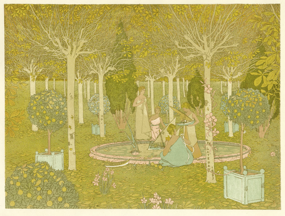 Le Parc by Gaston de Latenay, lithographic print from L'Estampe moderne, vol. I, Paris, F. Champenois.